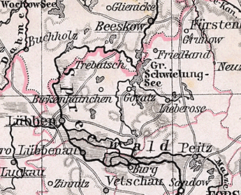 Detail from a map of Brandenburg.